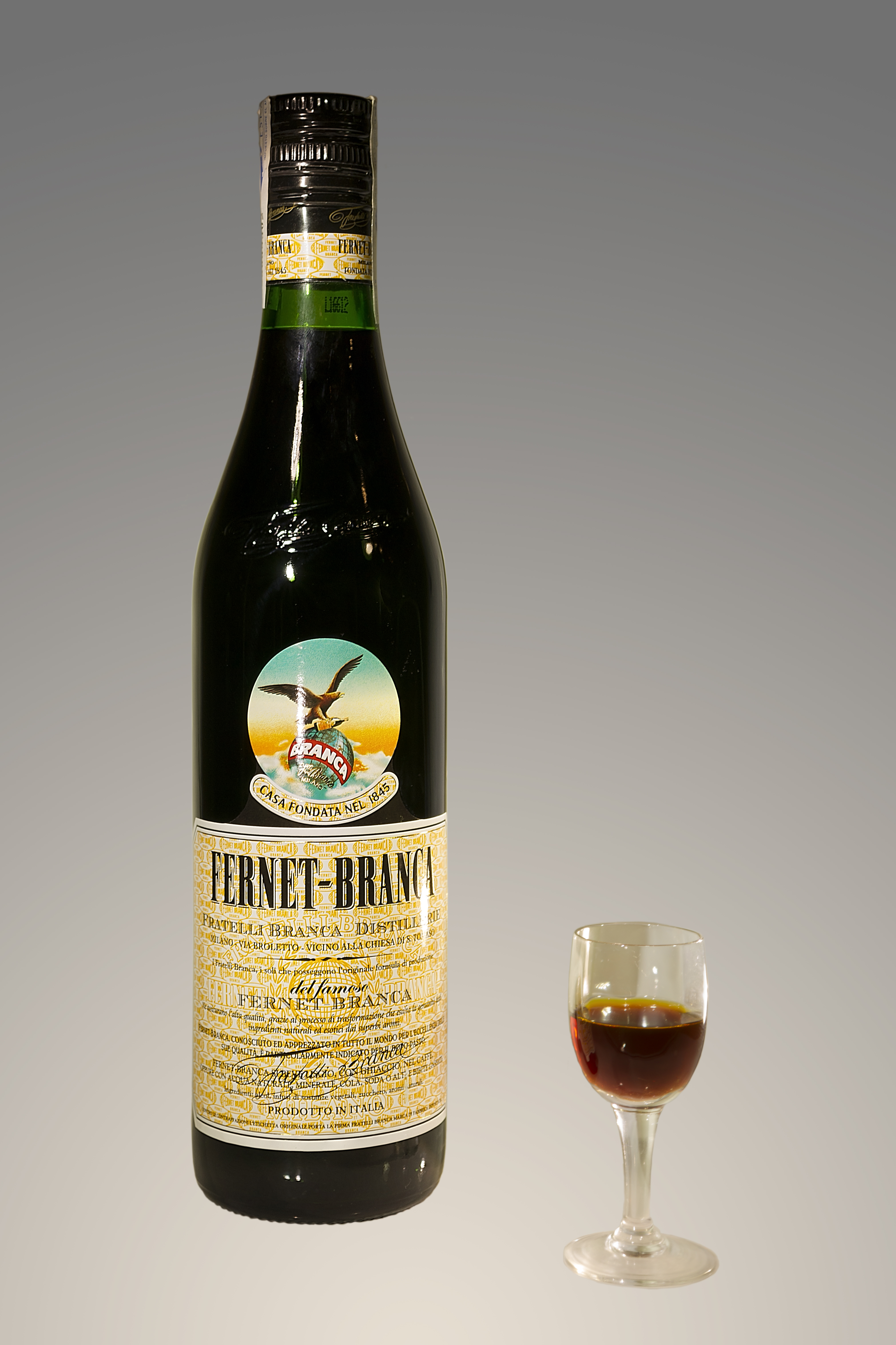 70cl Bottle Fernet-Branca.